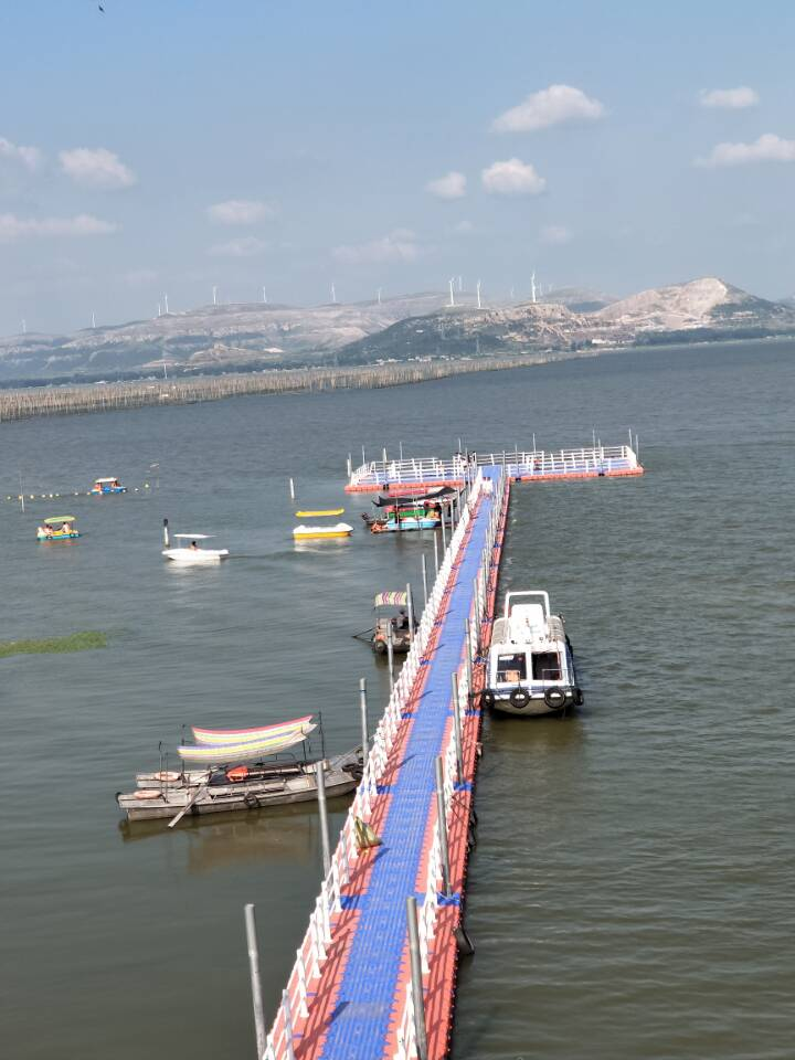 Yinshan Town